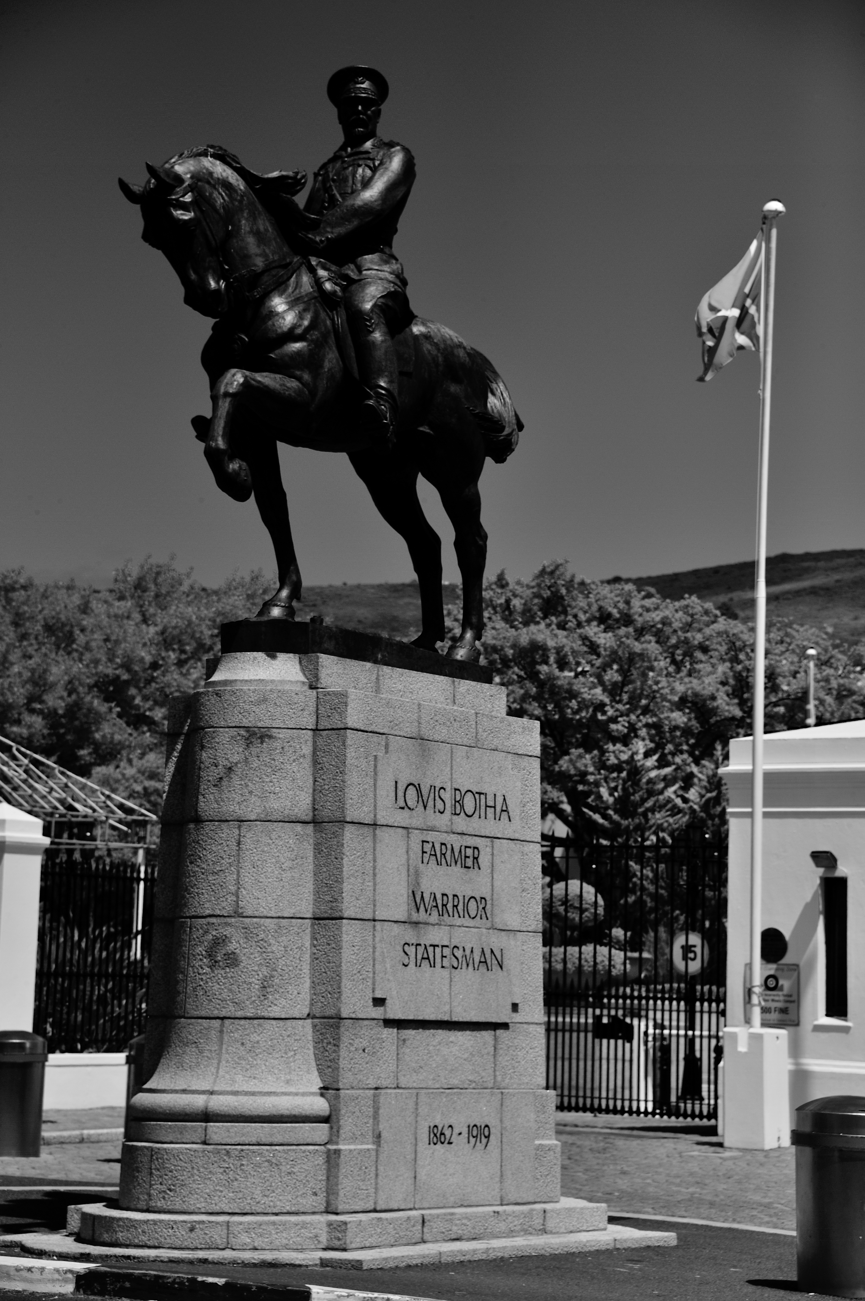 Statue of Louis Botha in front of the South African Parliament building on Roeland Street, Cape Town. Black and white photograph taken with an ultraviolet filter.